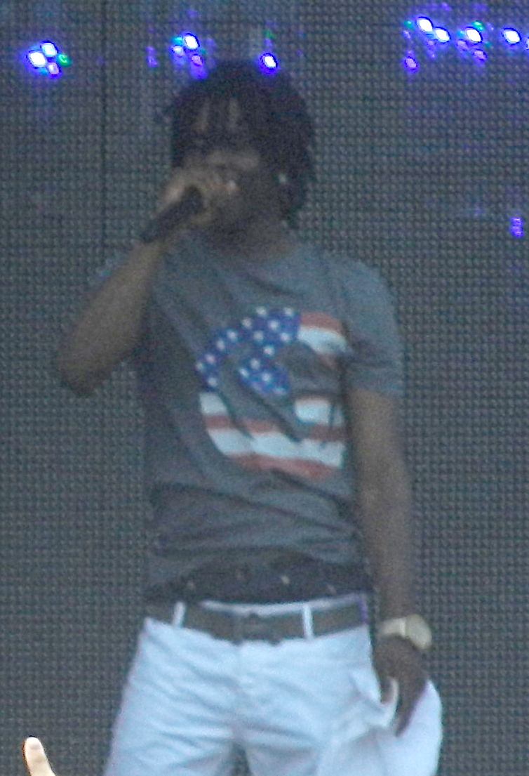 Cropped image of Chief Keef performing at Lollapalooza 2012